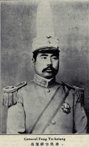 Feng Yuxiang (Feng Yü-hsiang), Huanzhang (1882 - 1948)